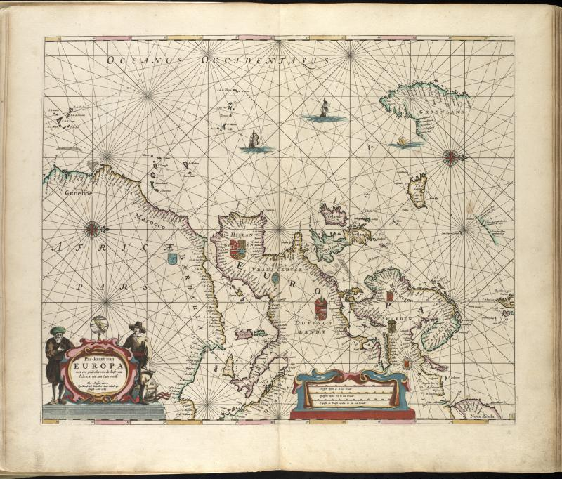 Zoom into this map at . Author: Doncker, Hendrick Publisher: Doncker, Hendrik Date: 1665 Location: Africa, North, Europe Dimensions: 42 x 52 cm. Scale: ca. 1;14,000,000 Call Number: G1059 .D66 1665